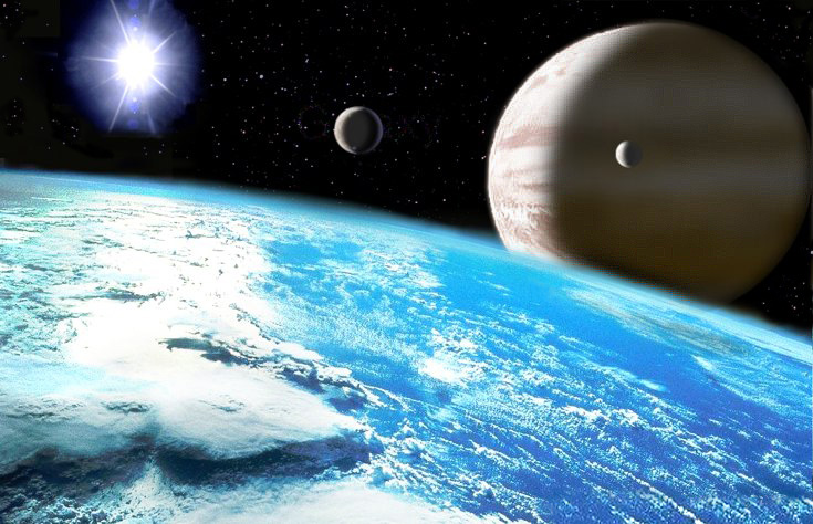 Artist's impression of a hypothetical earth-like moon with vast oceans of water in orbit around a jupiter-like extrasolar planet.